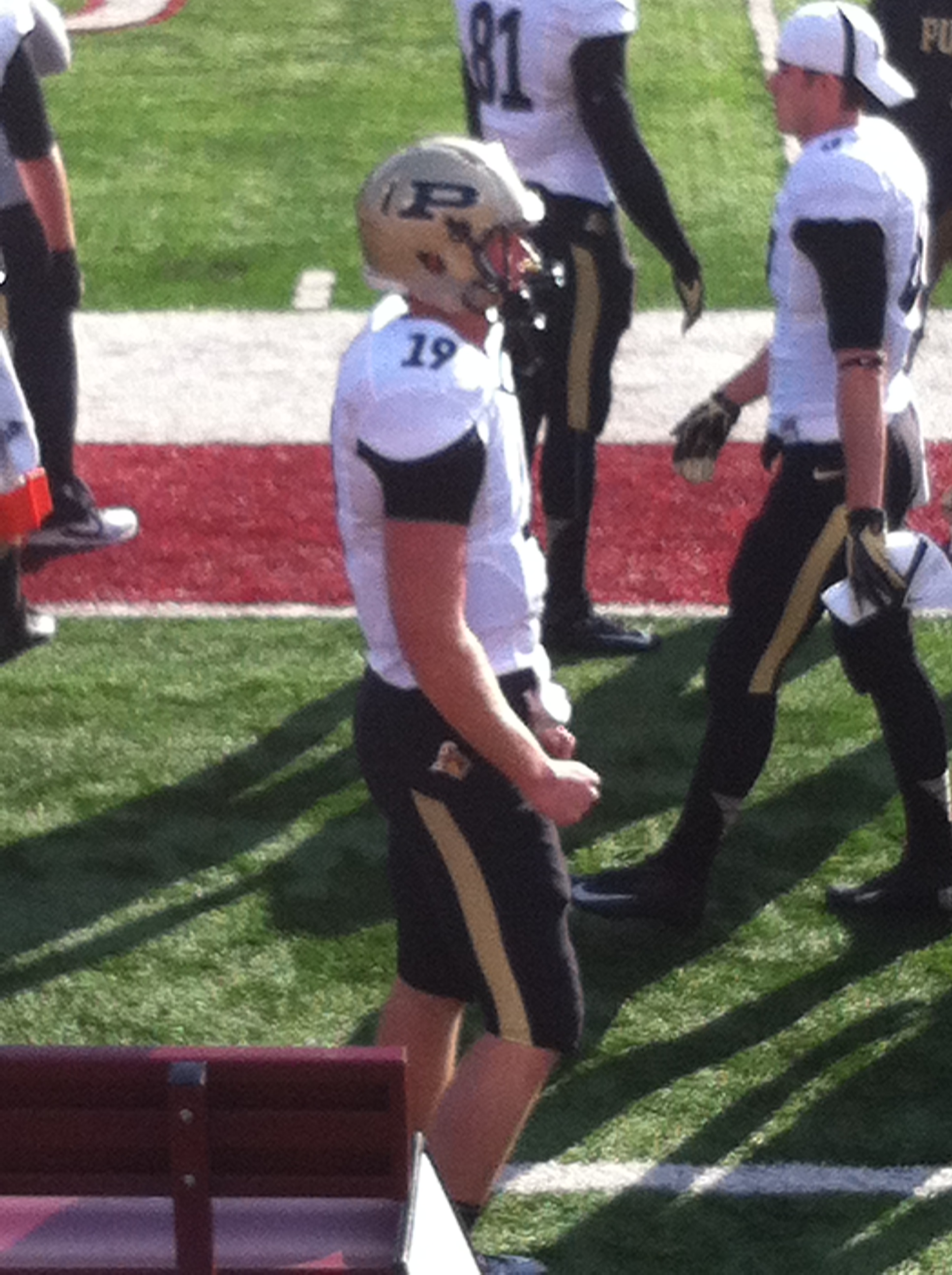 Caleb TerBush, Purdue Boilermakers football player who attended Metamora Township High School in Illinois.